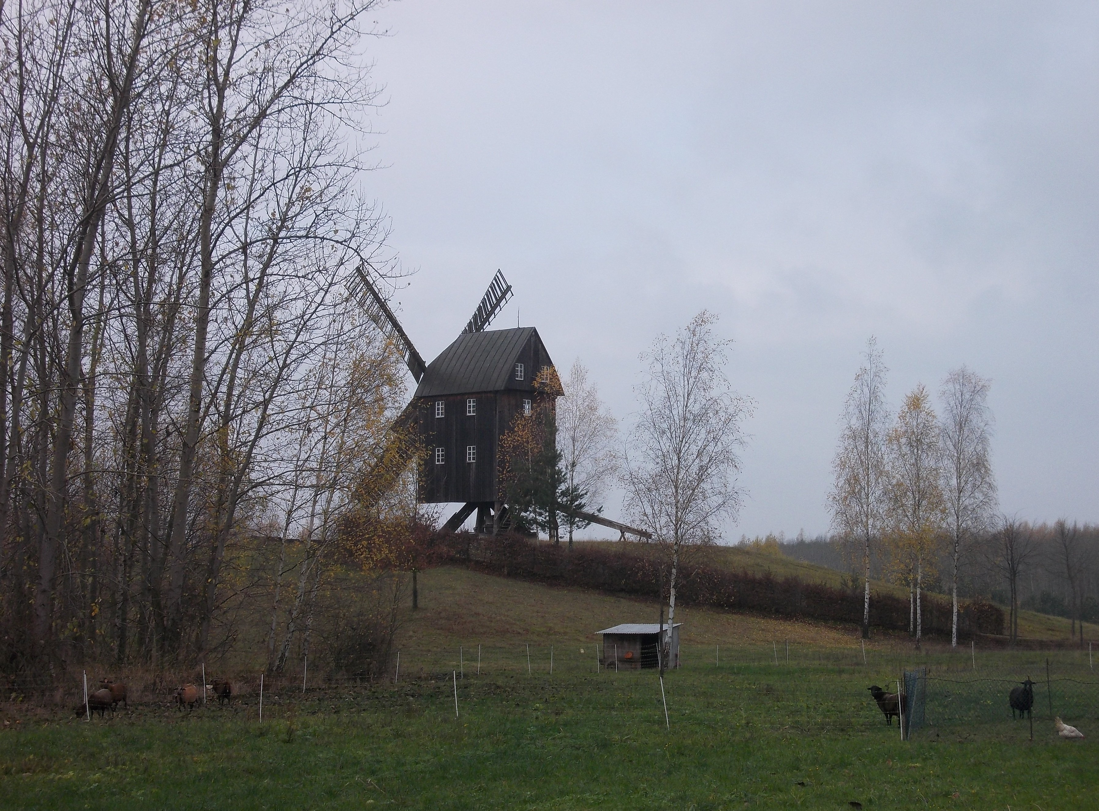 Post mill in Schönau (Frohburg, Leipzig district, Saxony), formerly in Breunsdorf